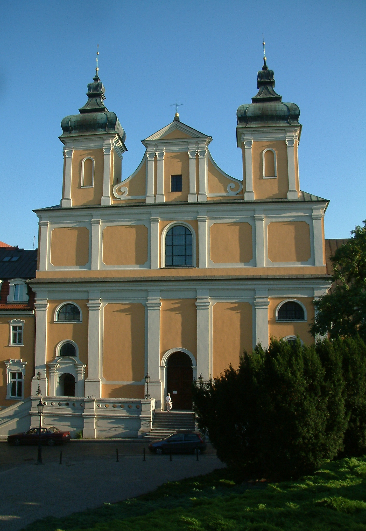 Church of St. Anthony and monastery of Conventual Franciscans on Przemysł Hill, Poznań